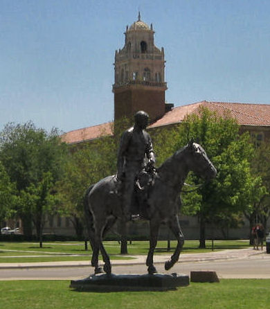 The Will Rogers and Soapsuds statue at Texas Tech University in Lubbock, Texas, United States.